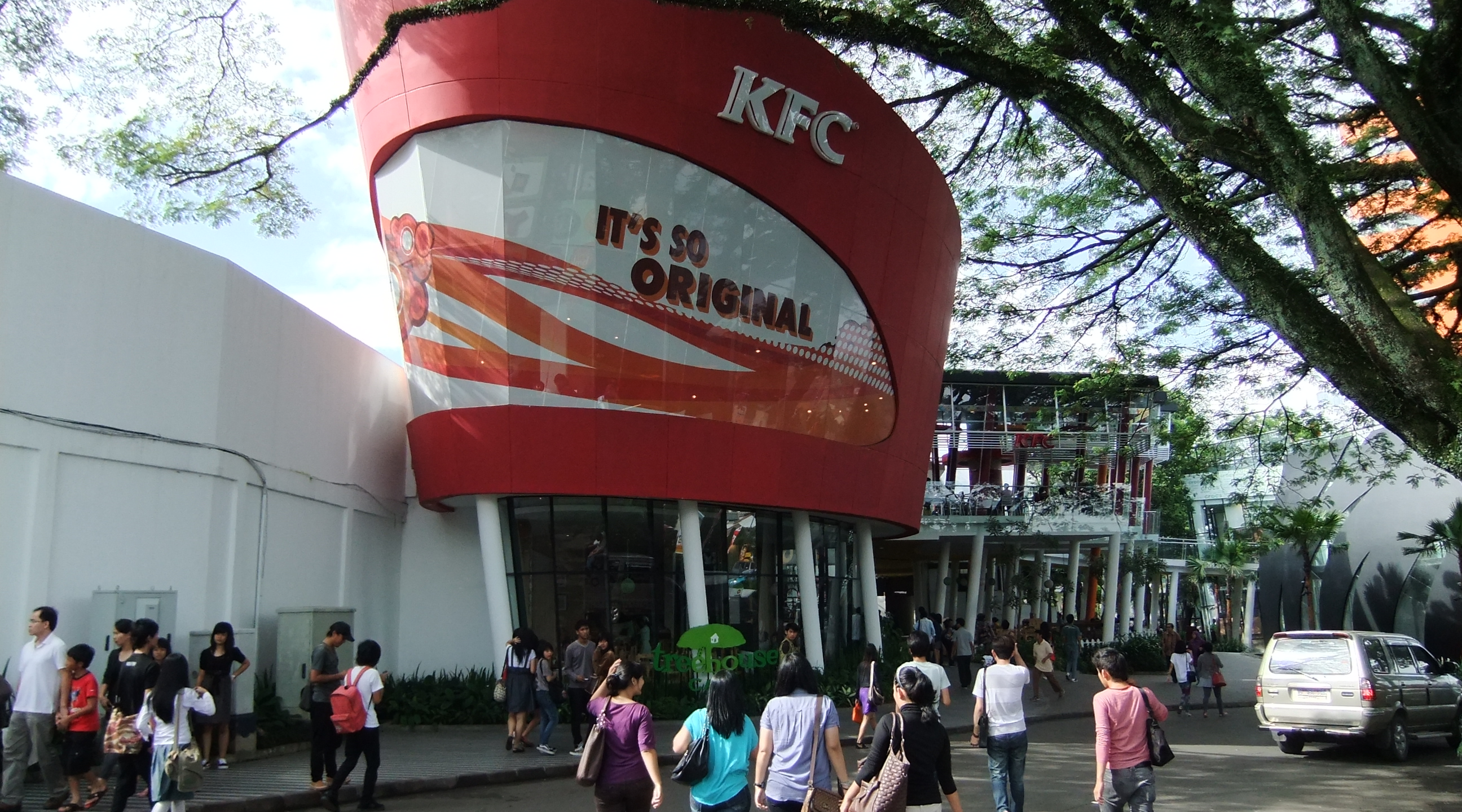 KFC restaurant at Cihampelas Walk, Bandung